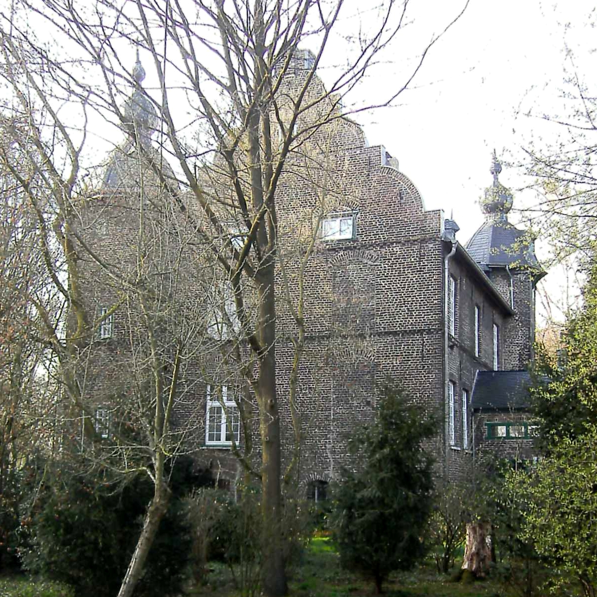 Haus Stockum, a country house near Anrath, Willich, Northrhine-Westfalia, Germany.